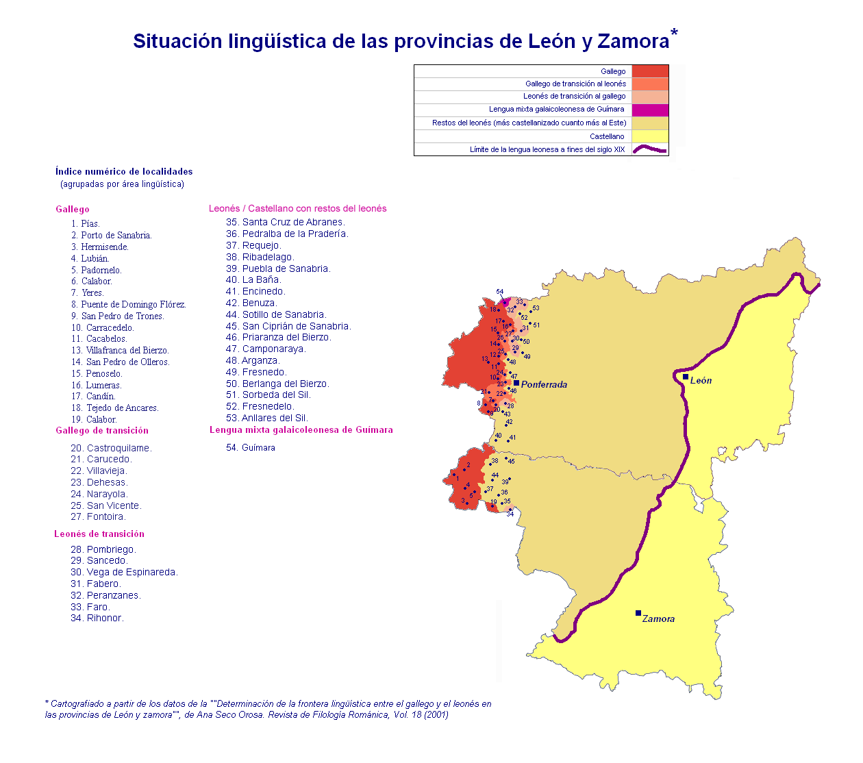 Situación lingüística de las provincias de León y Zamora (España)